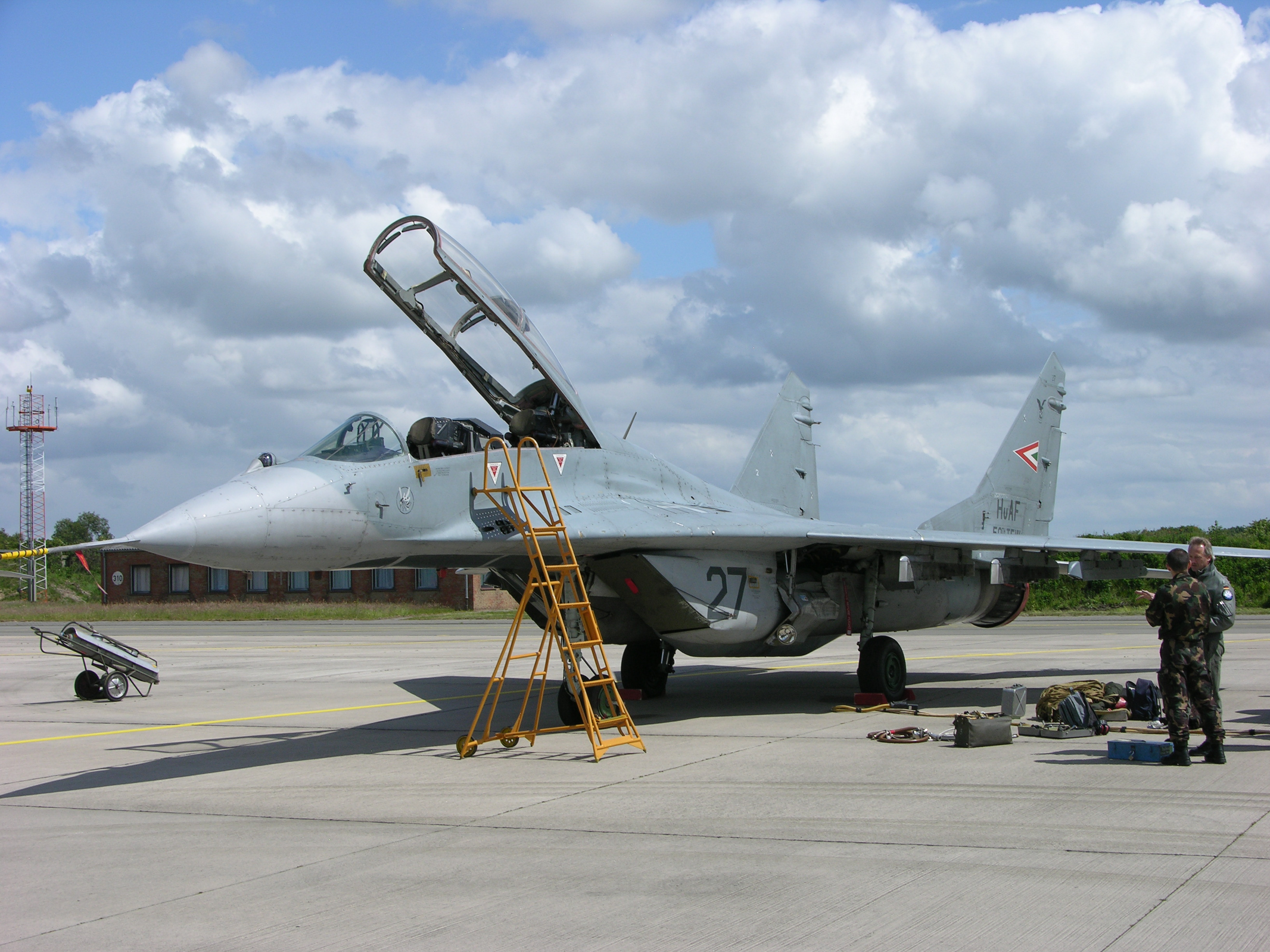 Wittmund, Germany 50 years of JG-71 "Richtofen"